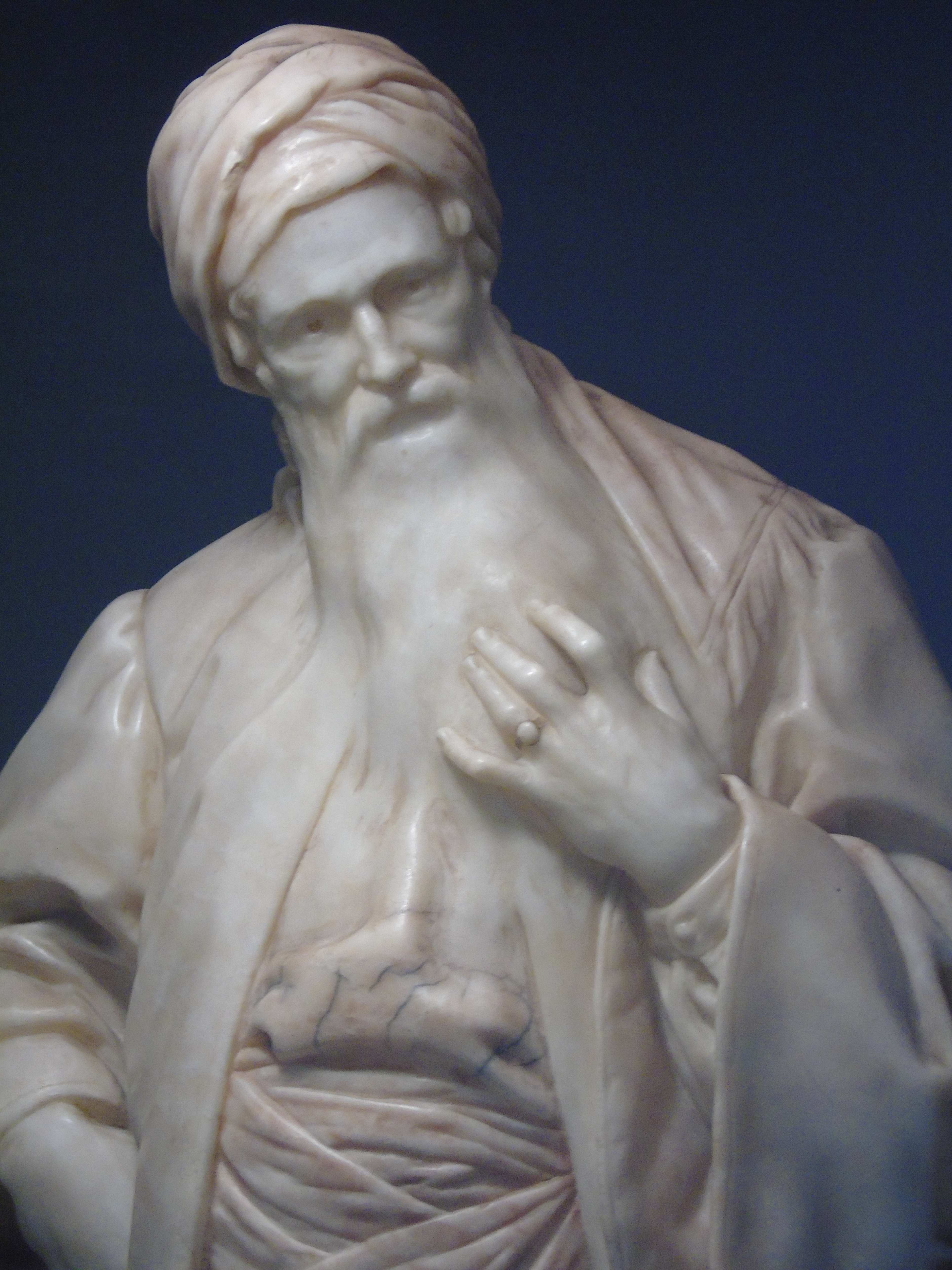 Nathan the Wise, sculpture from Adolf Jahn, Alabaster